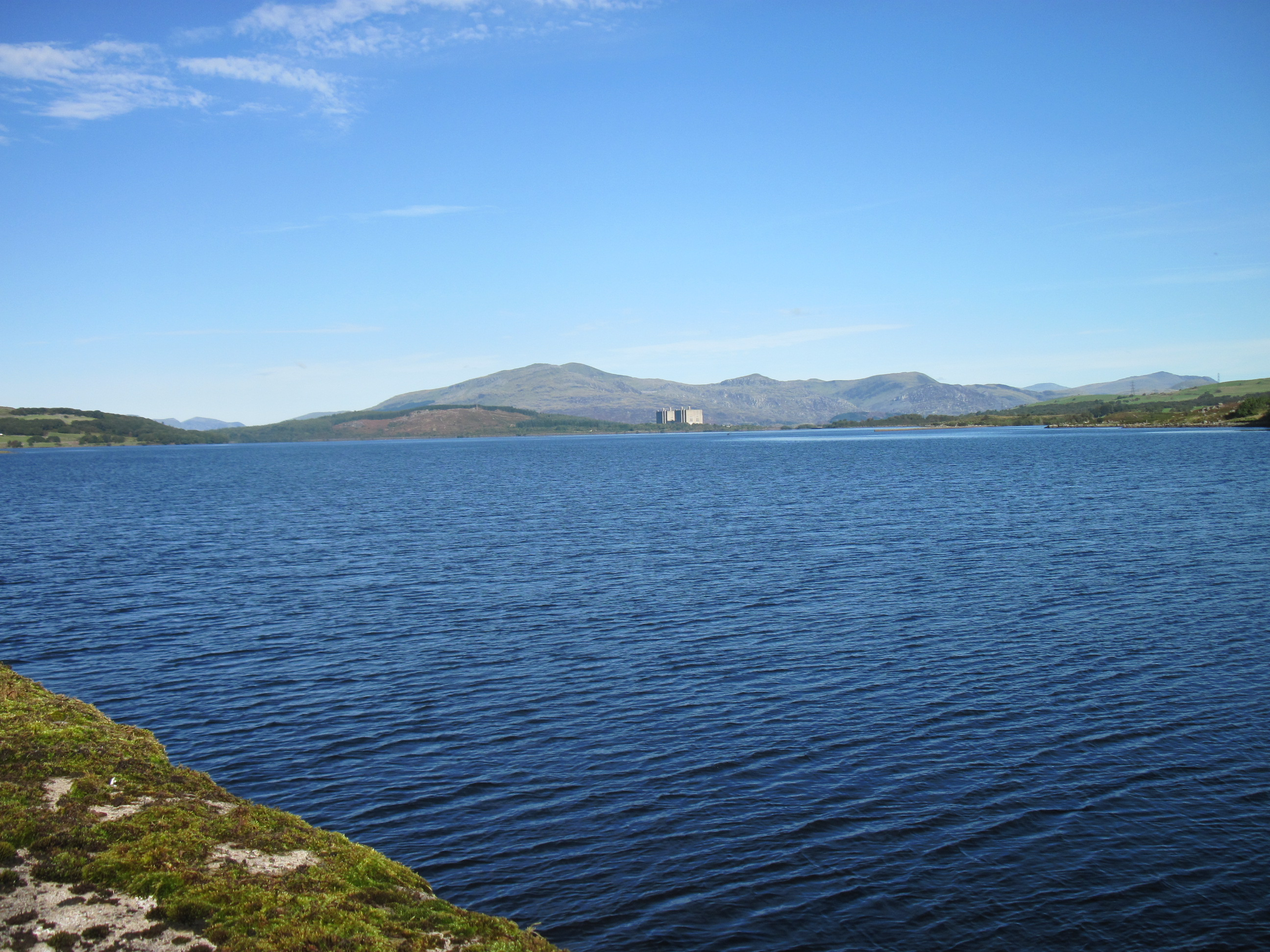 Llyn Trawsfynydd looking north and disused power station